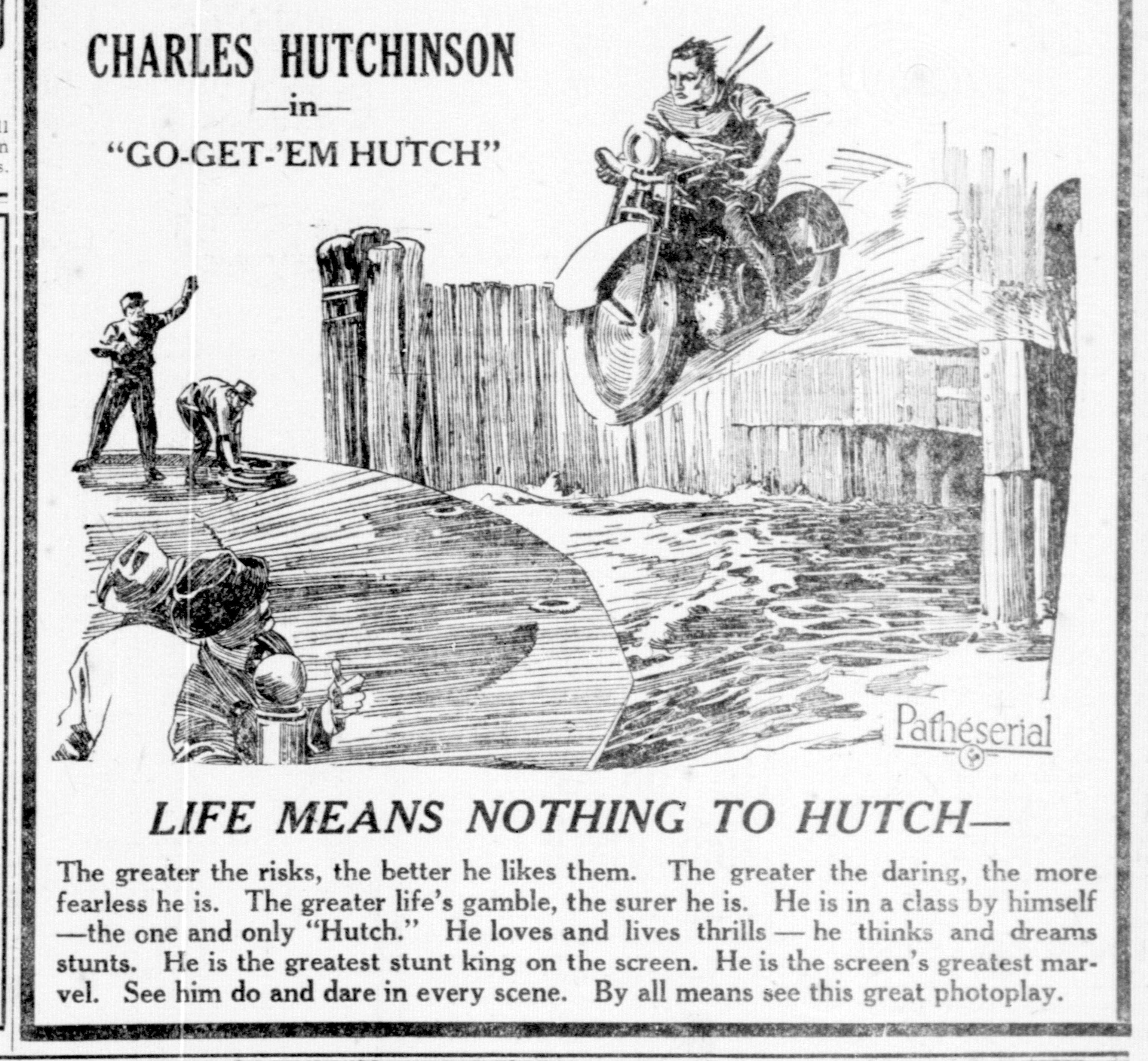 Newspaper advertisement for the American drama film serial Go Get 'Em Hutch (1922), from the South Bend News-Times.